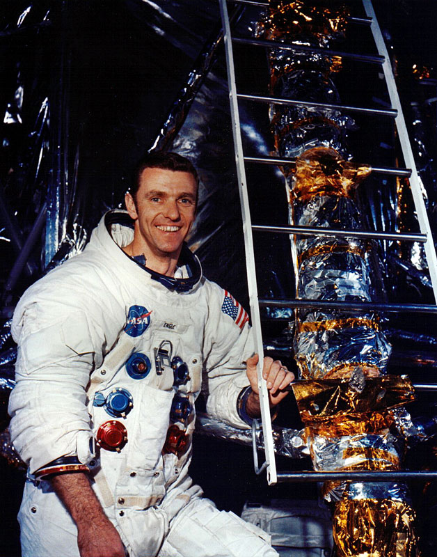 Apollo 14 Backup Lunar Module Pilot Joe Engle. 22 January 1971.